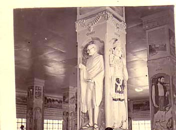 Photo taken by me in 1957 using B & W film camera. Photo shows another view of Geetha Mandir built by an industrialist.